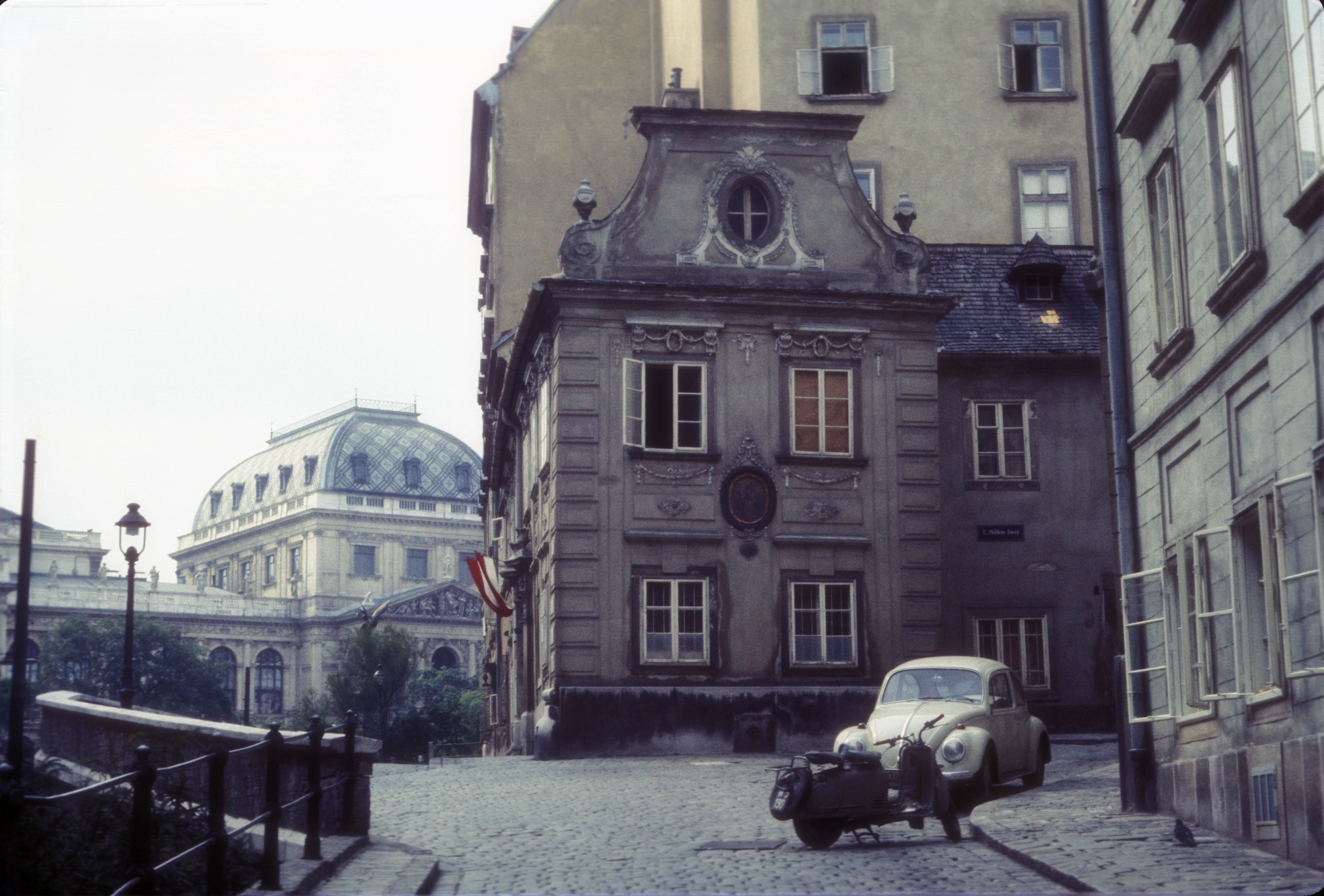 The Dreimäderlhaus in Vienna, associated with Schubert through his operetta Lilac Time, though he never lived here. Beethoven lived in a house behind this. The wall on the left is one of the few remaining walls in Vienna from the 1683 Turkish Siege.